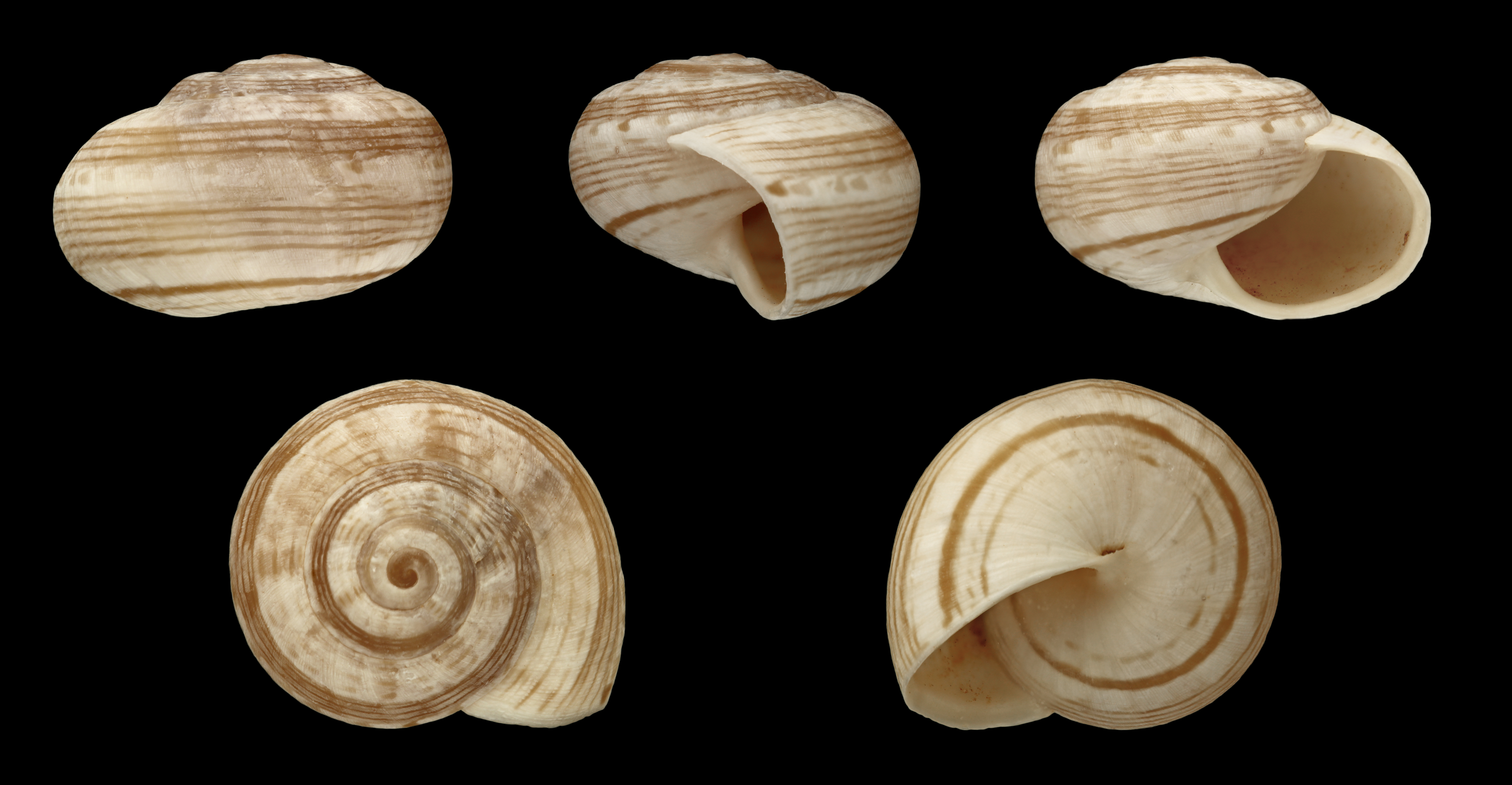 Subfossil shell; Diameter 1.5 cm; Originating from the Charco del Palo, Lanzarote, Canary Islands, Spain. 29°5′12.13″N 13°26′59.19″W / 29.0867028°N 13.449775°W; Shell of own collection, therefore not geocoded.